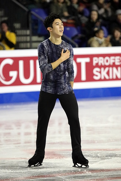 Nathan Chen at the 2018–19 Grand Prix of Figure Skating Final.